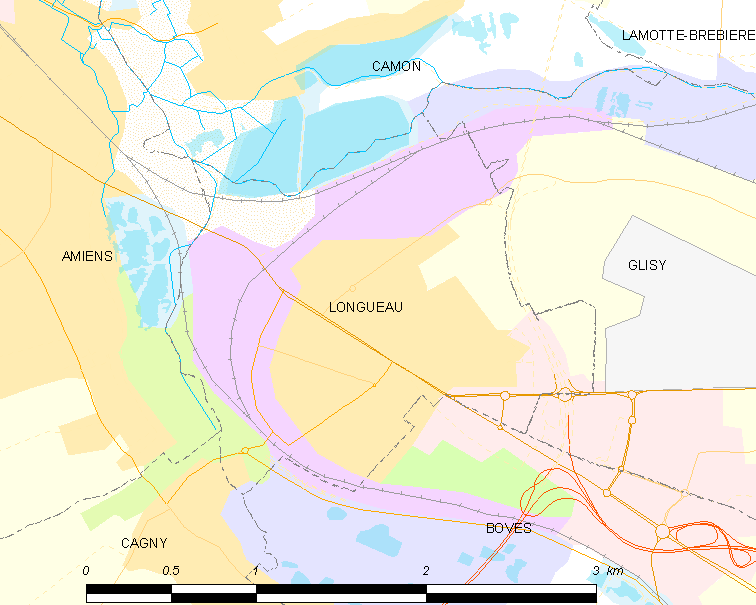 Map of French municipality Longueau